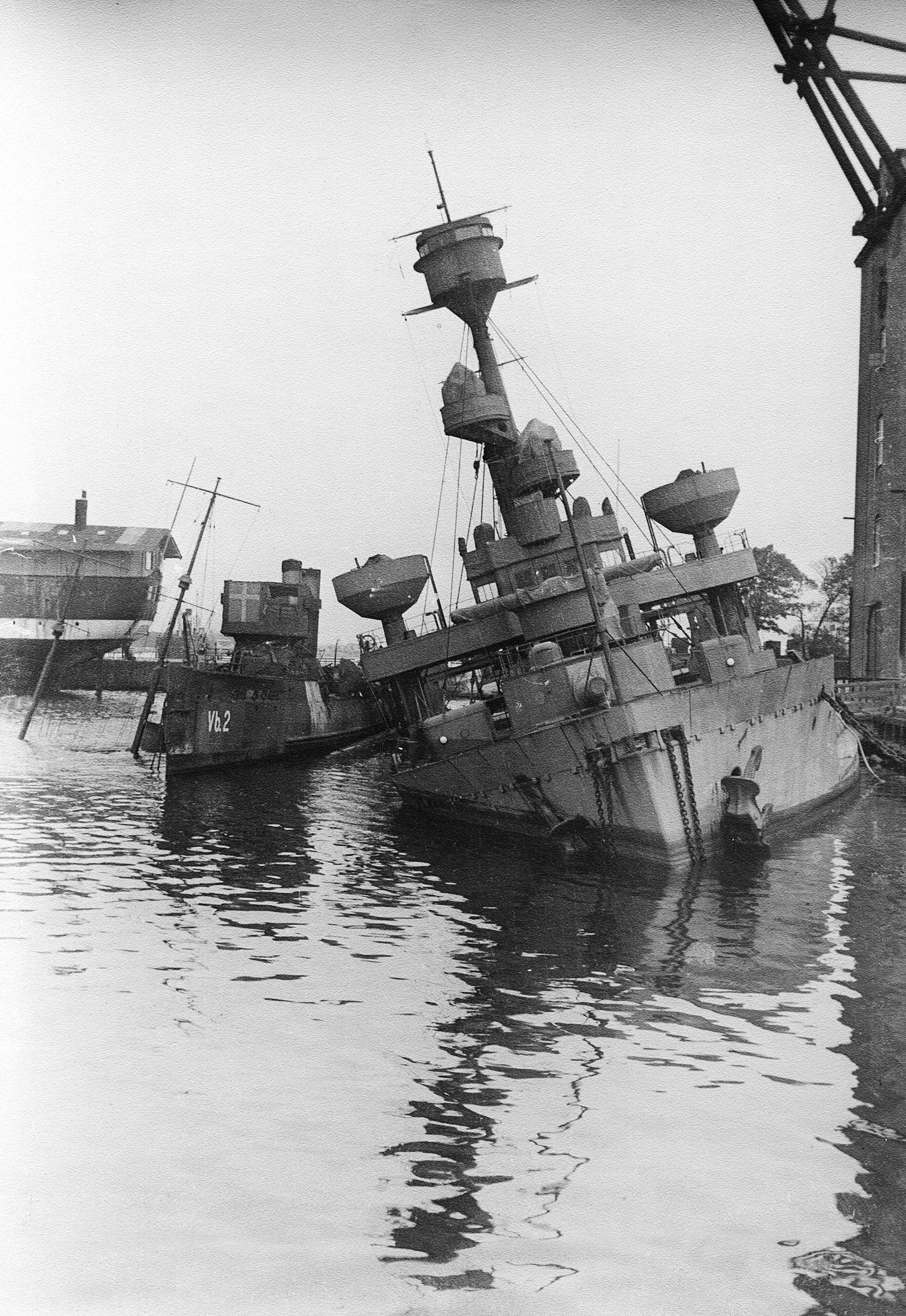 Danish Ships sunk, 29. August 1943